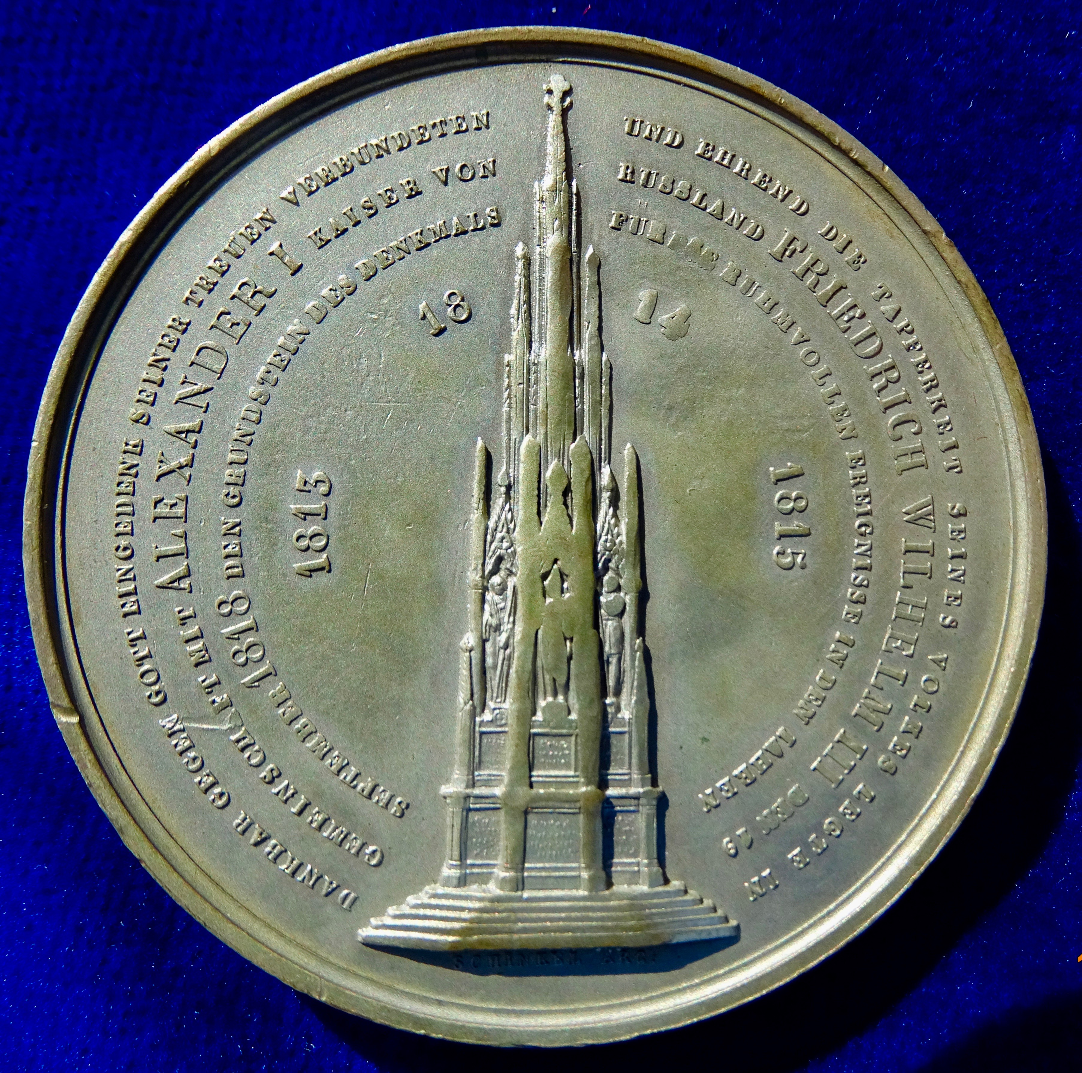 Berlin, Medal 1818, Alexander I of Russia, and Friedrich Wilhelm III of Prussia. Silvered bronze medallion d. = 50 mm of the the laying of the foundation stone for the Prussian National Monument of the Liberation Wars against Napoleon. Friedrich Wilhelm III of Prussia 1797-1840, and Alexander I of Russia 1801-1825 2 conjoined heads l., around: "ALEXANDER I. FRIED WILHELM III."/ 4 lines around the monument on the Berlin-Kreuzberg hill in the Victoria Park: "DANKBAR GEGEN GOTT EINGEDENK SEINER TREUEN VERBUNDETEN UND EHREND DIE TAPFERKEIT SEINES VOLKES LEGTE IN GEMEINSCHAFT MIT ALEXANDER I KAISER VON RUSSLAND FRIEDRICH WILHELM III DEN 19 SEPTEMBER 1818 DEN GRUNDSTEIN DES DENKMALS FÜR DIE RUHMVOLLEN EREIGNISSE IN DEN JAHREN 1813 1814 1815". Slg. Henckel 2235, Slg. Pniower 500 (Ag). Condition: EXTREMELY FINE.